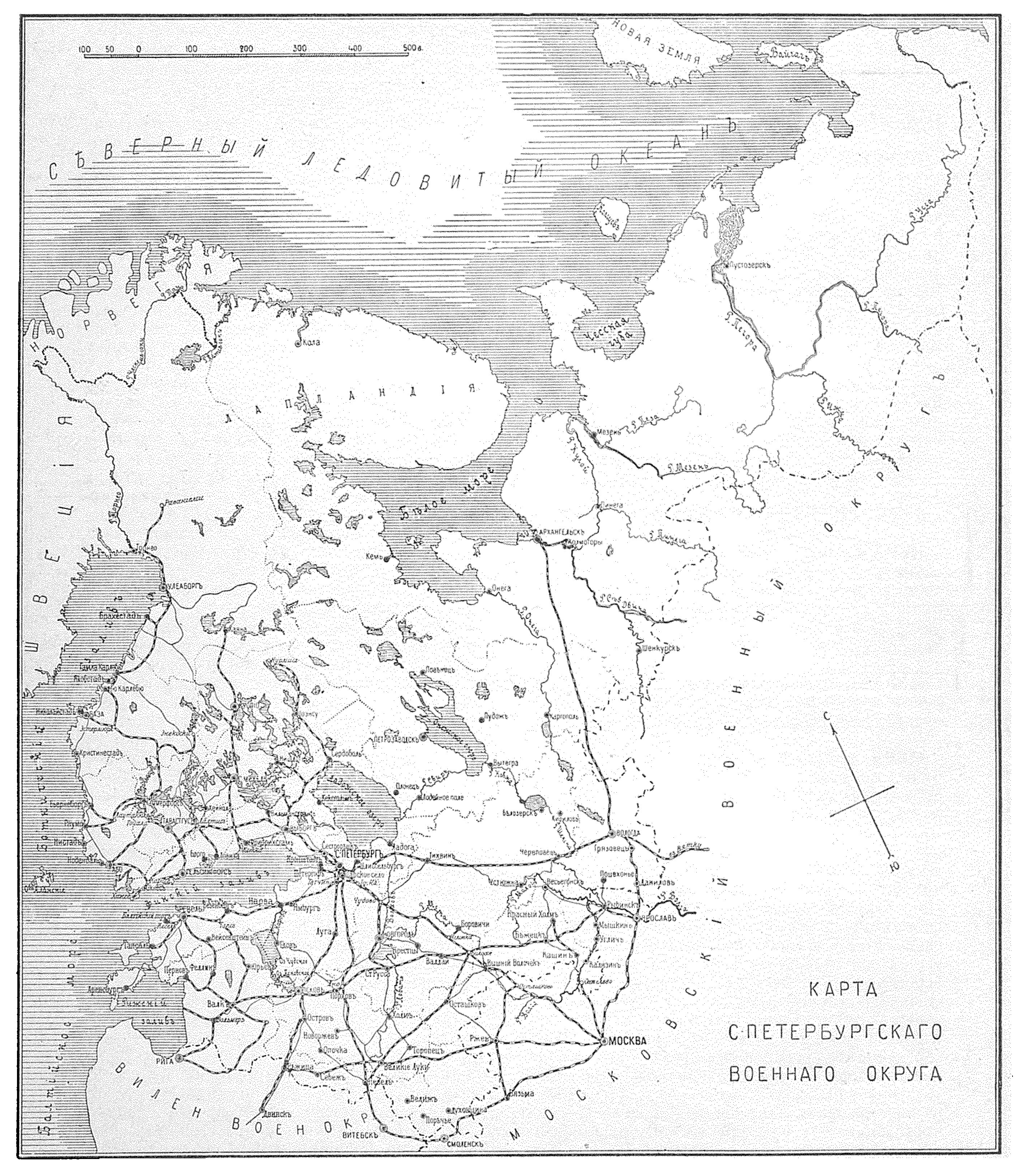 The Petersburg Military District (Питербургский вое́нный о́круг) was a Military District of the Russian Empire originally created in August 1864 following Order B-228 of Dmitry Milyutin, the Minister of War of the Russian Empire. The order, signed on 10 (22) August established that "for local control of the Ground Armed Forces and military establishments, are formed ... Military-regional administrations in the following ten military districts" of which one was Petersburg. The District’s forces gained combat experience in the Russo-Turkish (1877–1878) and Russo-Japanese (1904–05) wars. Finland Military District was merged into the Petersburg District in 1905.